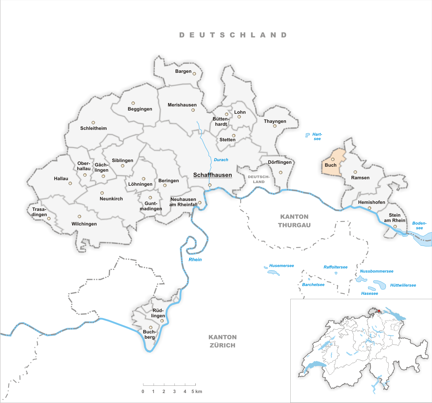 Municipality Buch